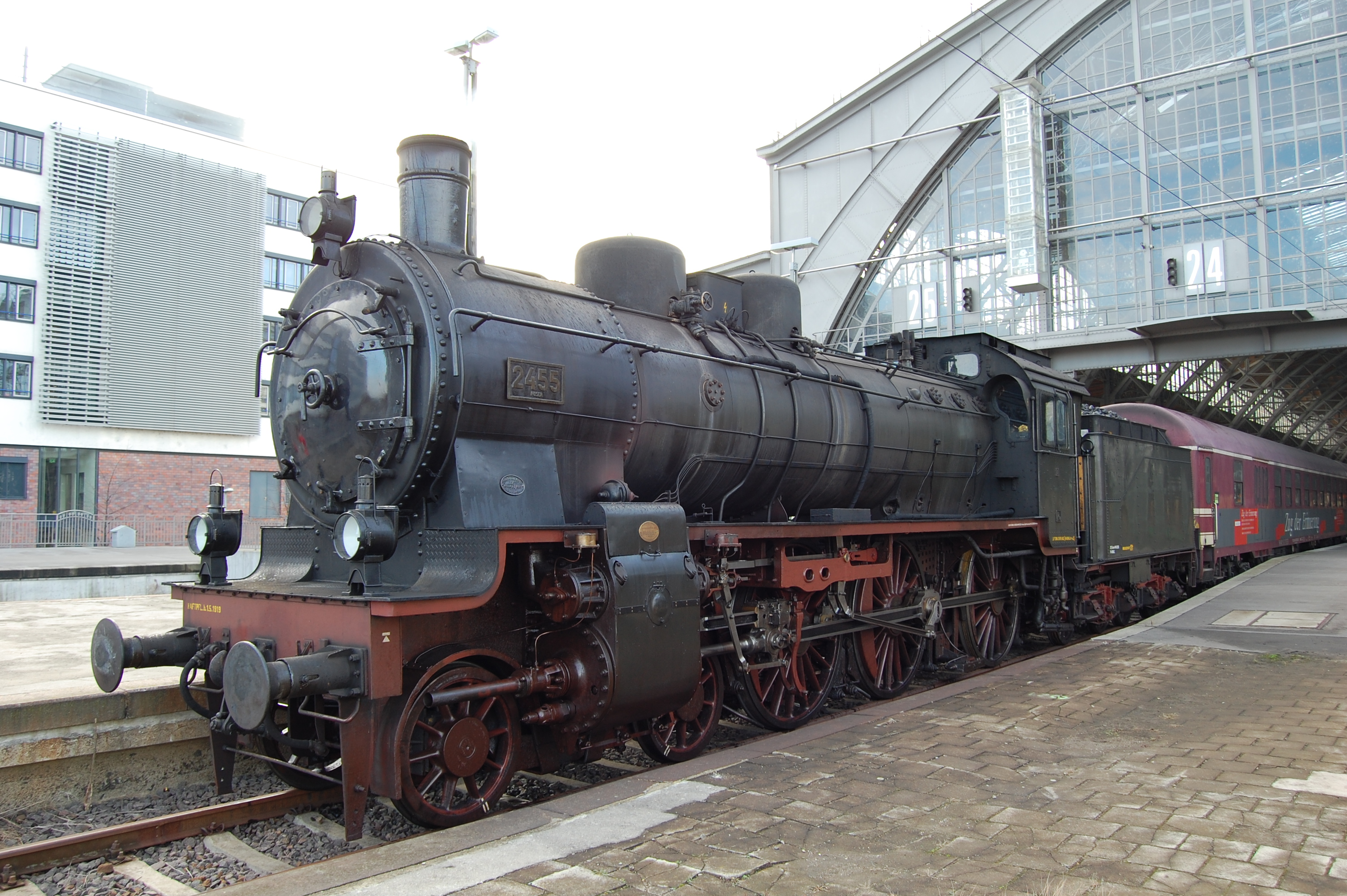 Prussian P 8 steam locomotive.